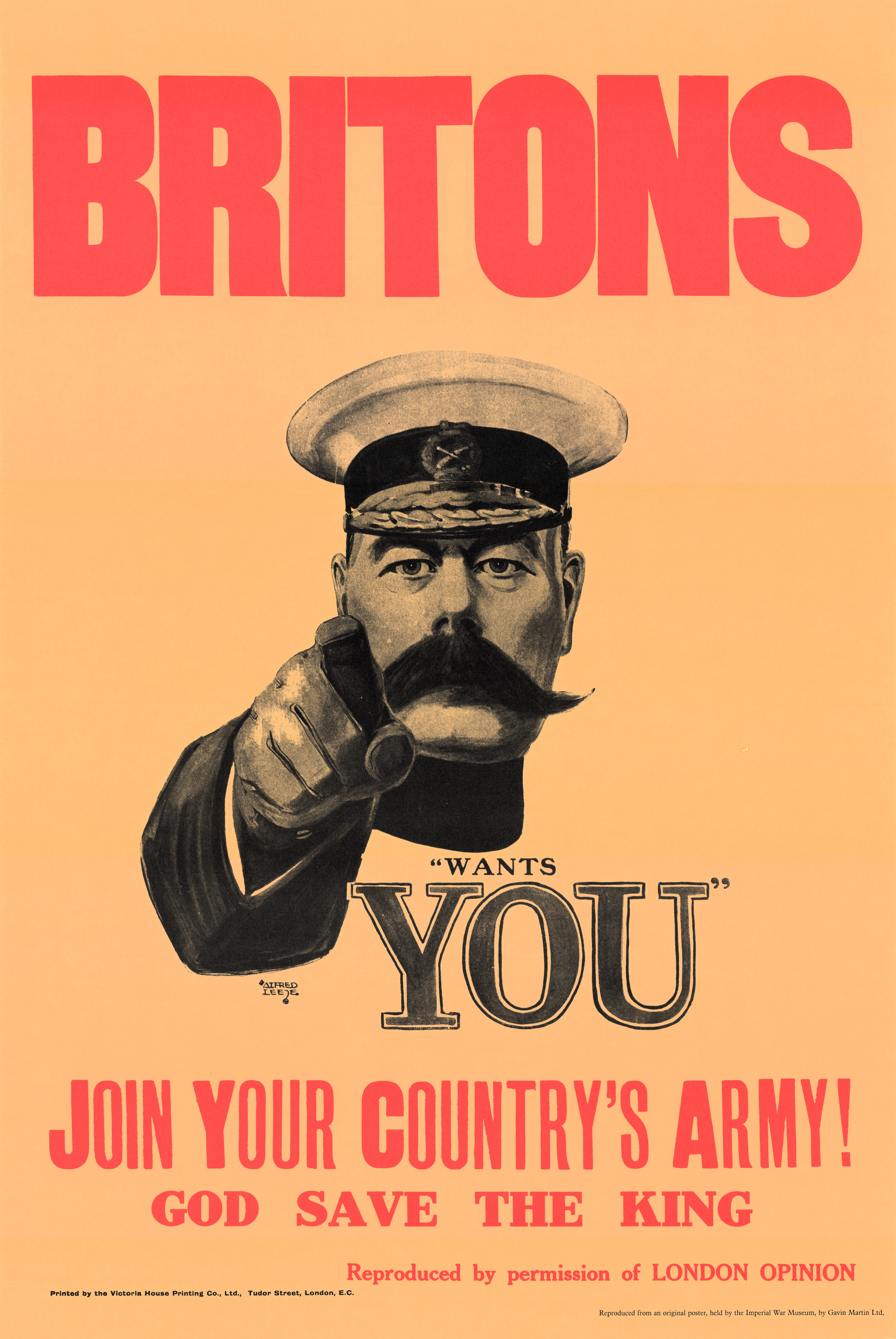 UK. Alfred Leete (1882-1933). Britons (Kitchener) wants you (British / Kitchener / needs you). 1914 (reprint), 74 x 50 cm. (Slg.Nr. 552). The title page of the "London Opinion" in 1914 for the first time printed images showing popular by its command posts in colonial wars War Minister Lord Kitchener. The advertising psychologically pioneering subject of fixing the viewer with the look in perspective enlarged outstretched forefinger was copied in several countries - the most successful in the United States and the Soviet Union.